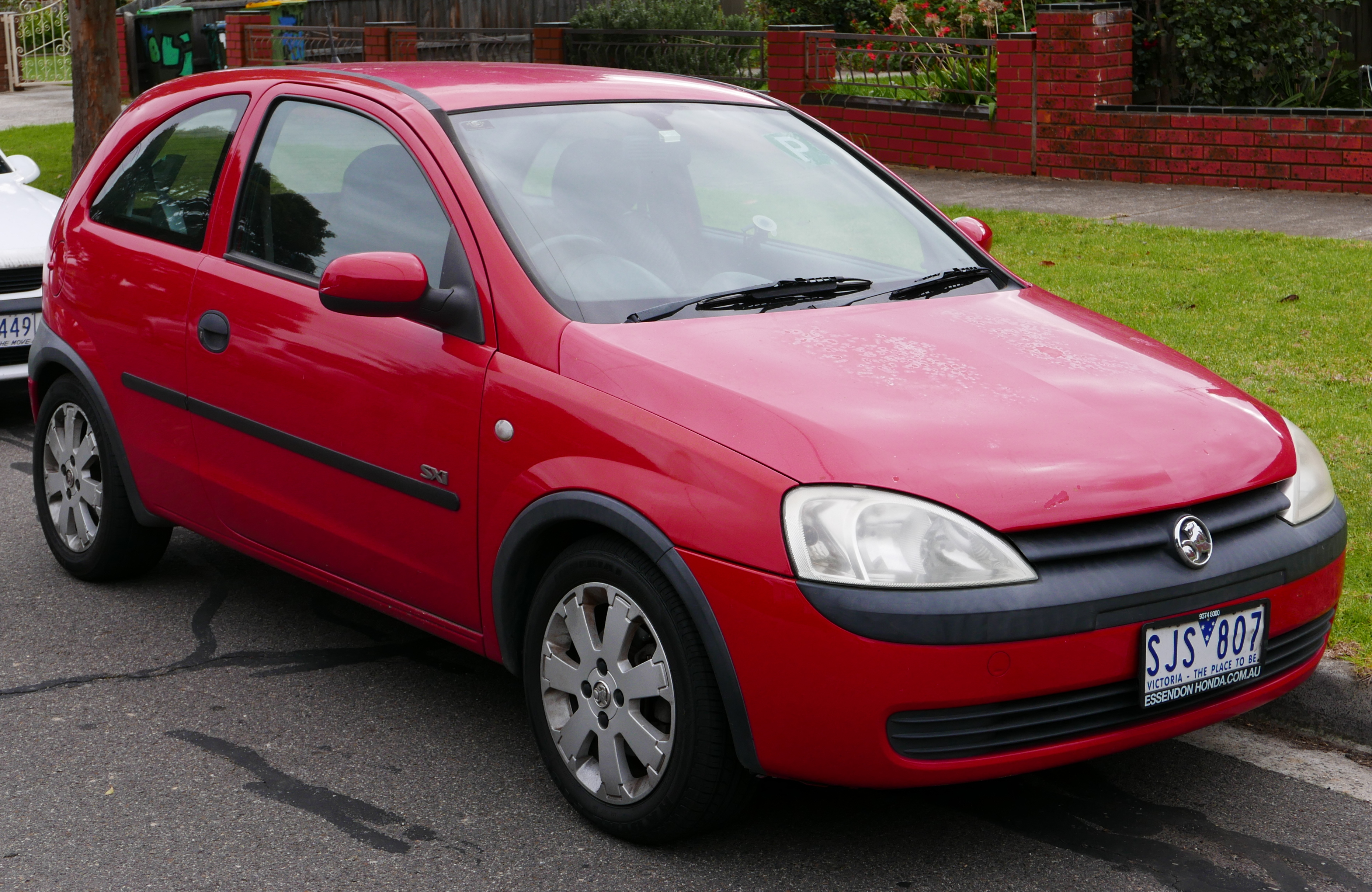 2003 Holden Barina (XC MY03) SXi 3-door hatchback. Photographed in Thornbury, Victoria, Australia. Vehicle registration enquiry resultsJurisdictionVictoriaRegistrationSJS807Chassis codeW0L0XCF0834215241Engine codeZ14XE20AU4426Compliance date2003-07Year of manufacture2003